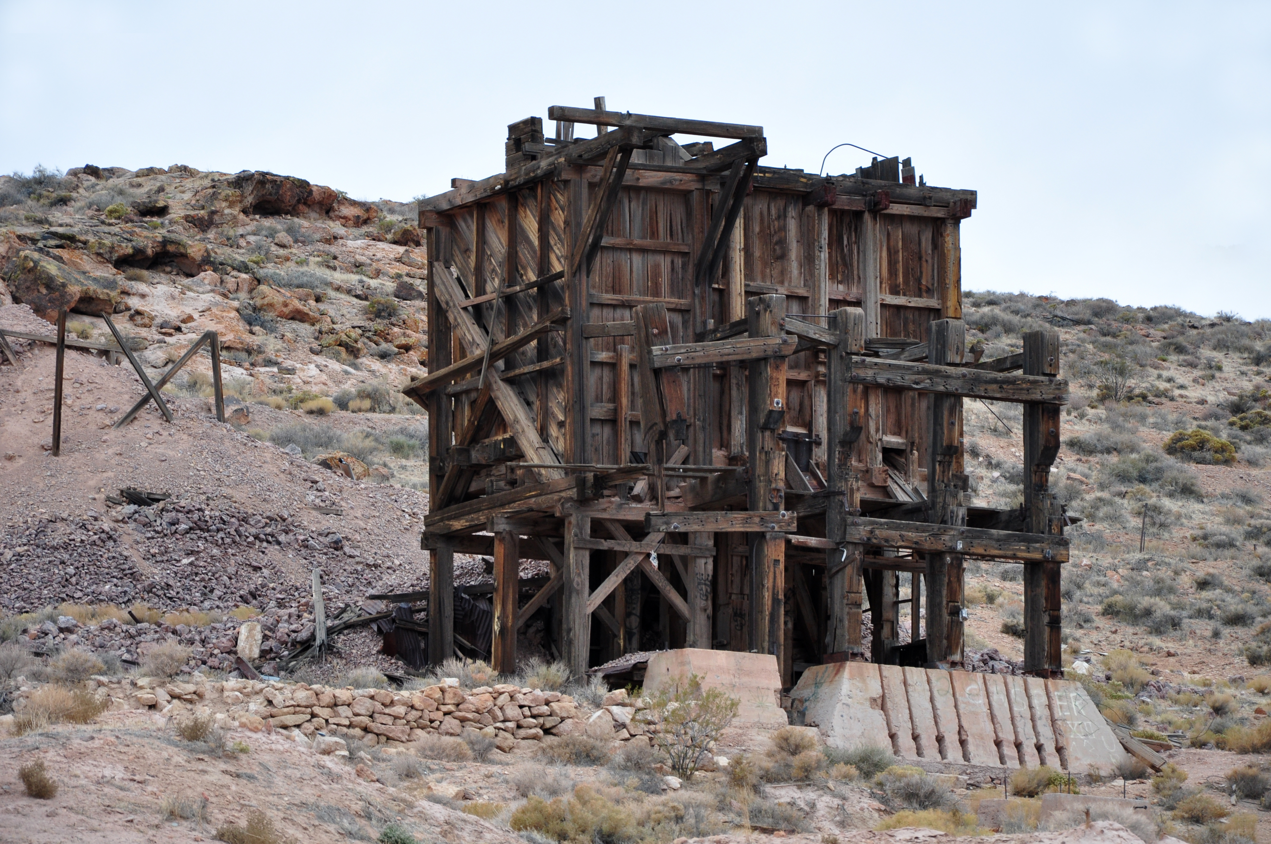 Ruins at the ghost town of Pioneer, Nevada, in the United States. The site of the former mining town is about 130 miles (210 km) northwest of Las Vegas